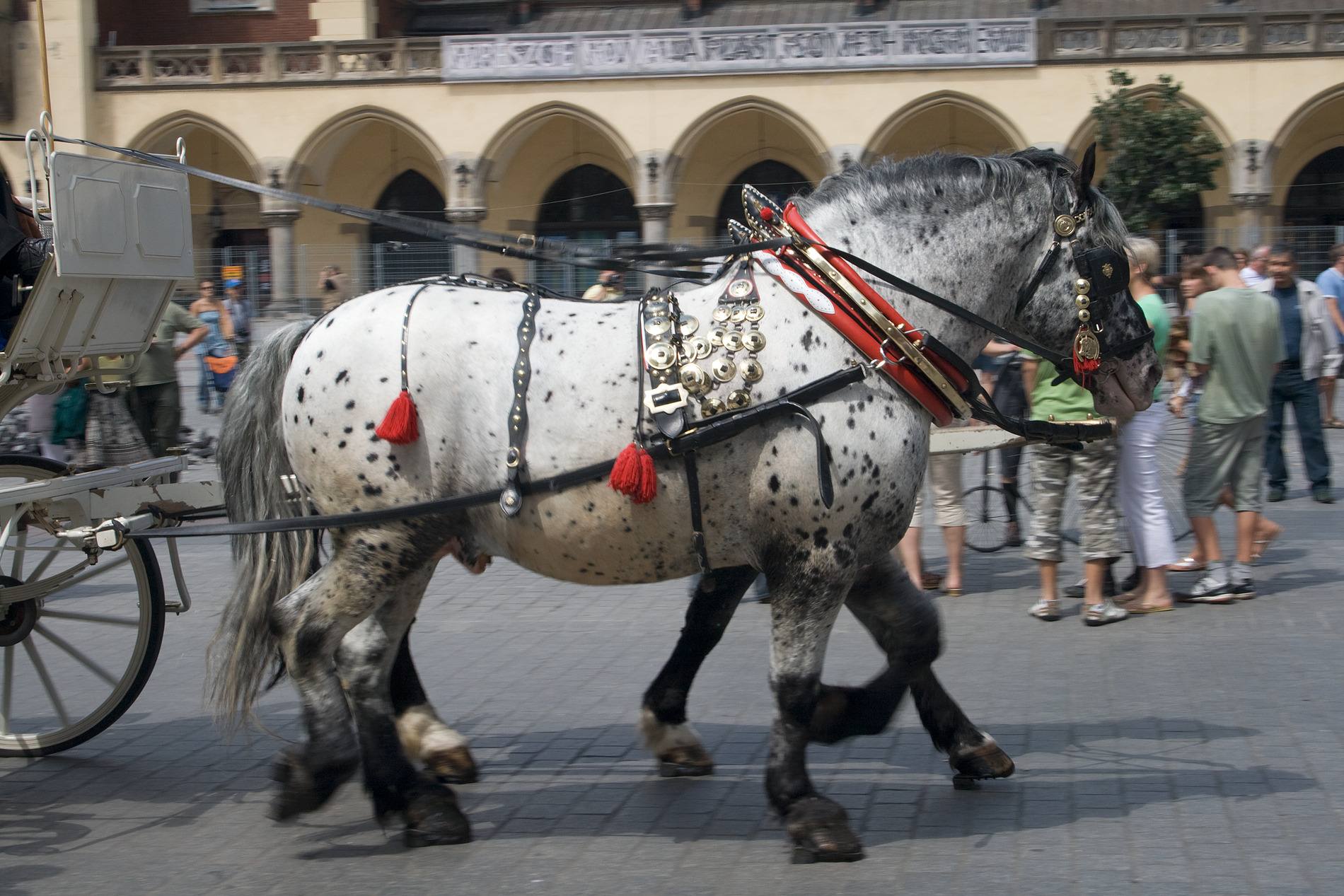 Carriage horses in Krakow